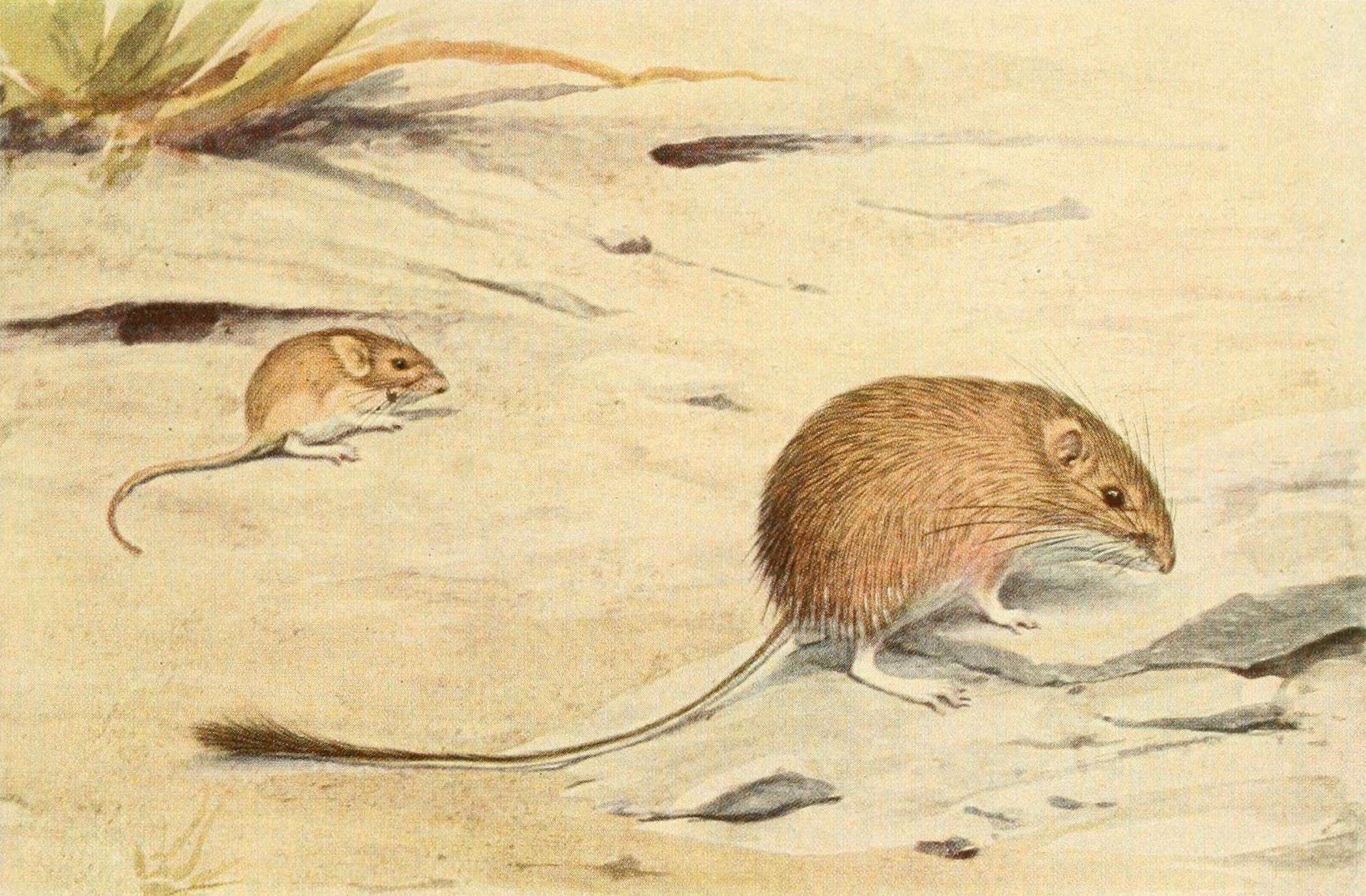 Wild animals of North America, intimate studies of big and little creatures of the mammal kingdom.